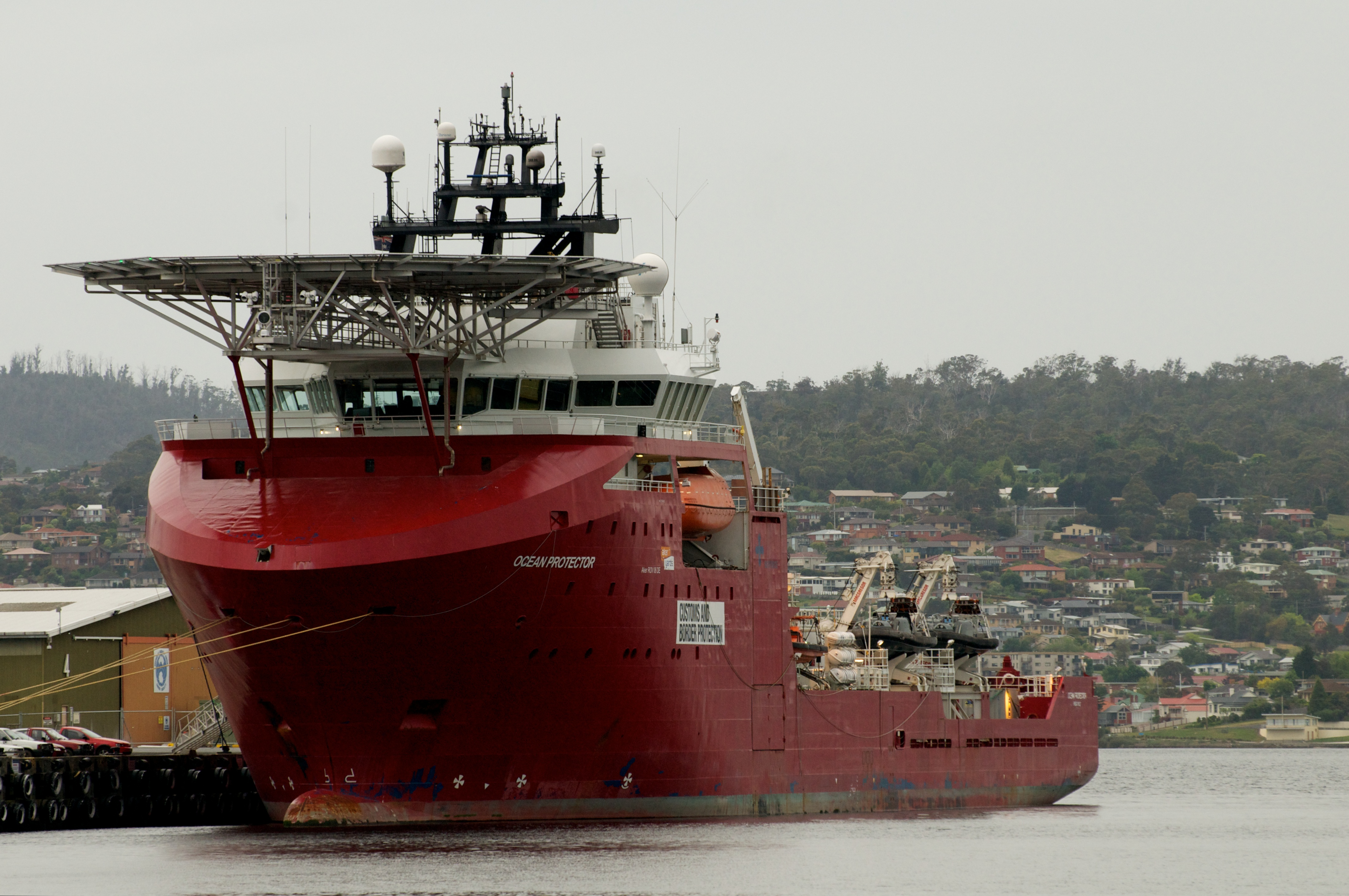 ACV Ocean Protector, tied up in Hobart.